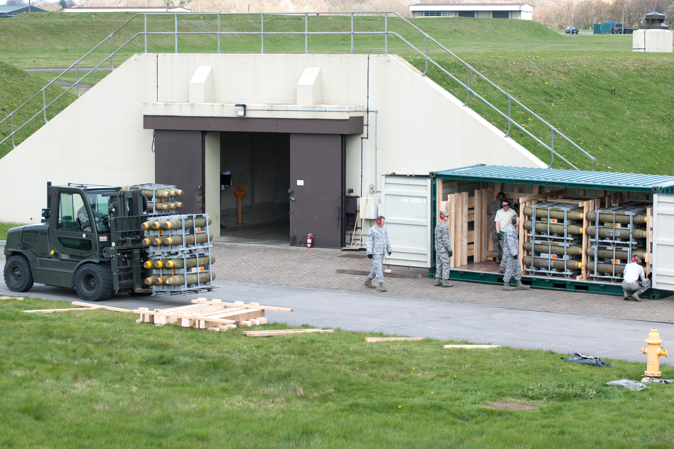 RAF WELFORD, United Kingdom - A crew from the 420th Munitions Squadron add munitions to a container. (U.S. Air Force photo by Senior Airman Joel Mease)